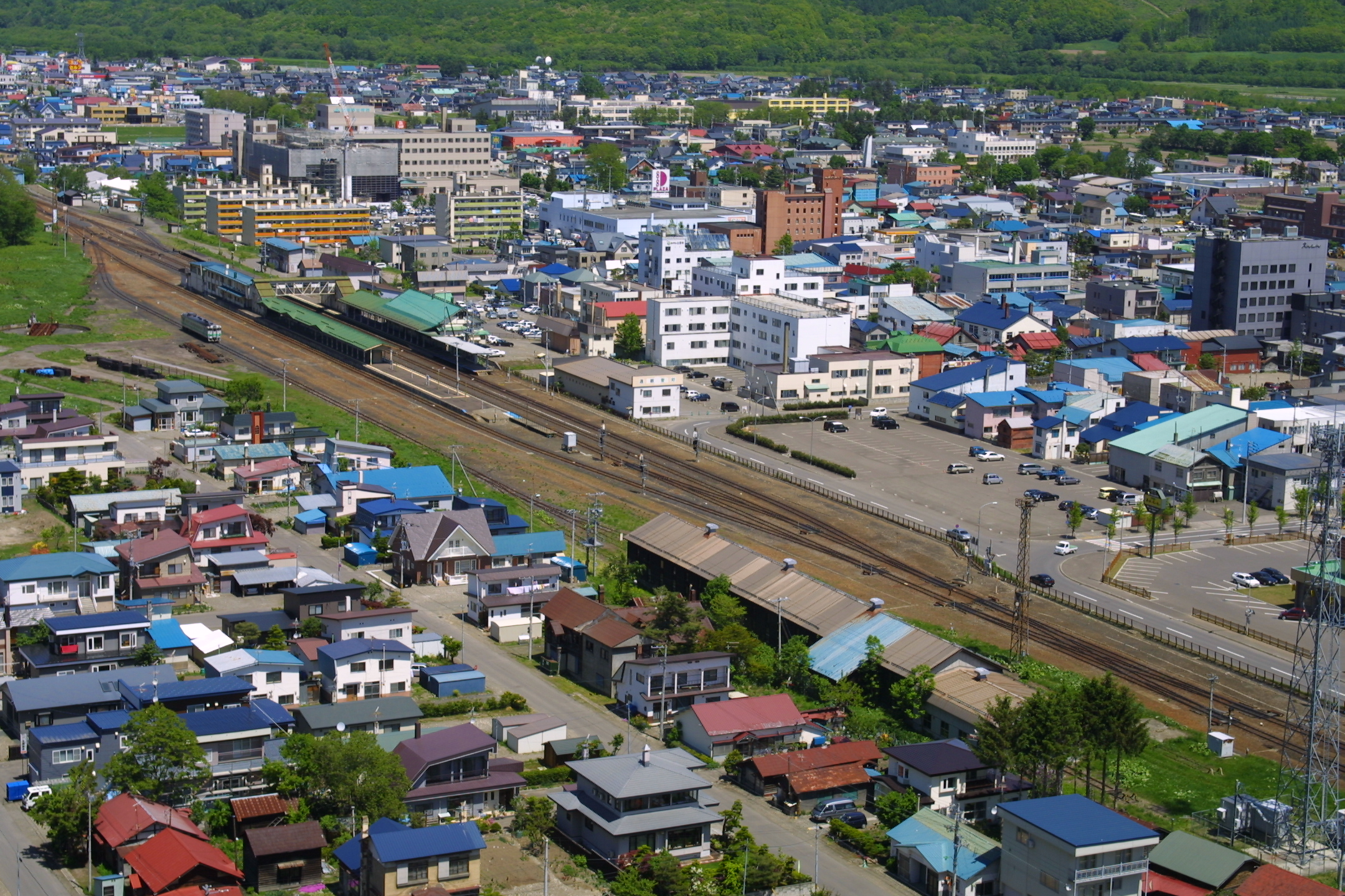 Engaru town area and station on 3 Jun 2004